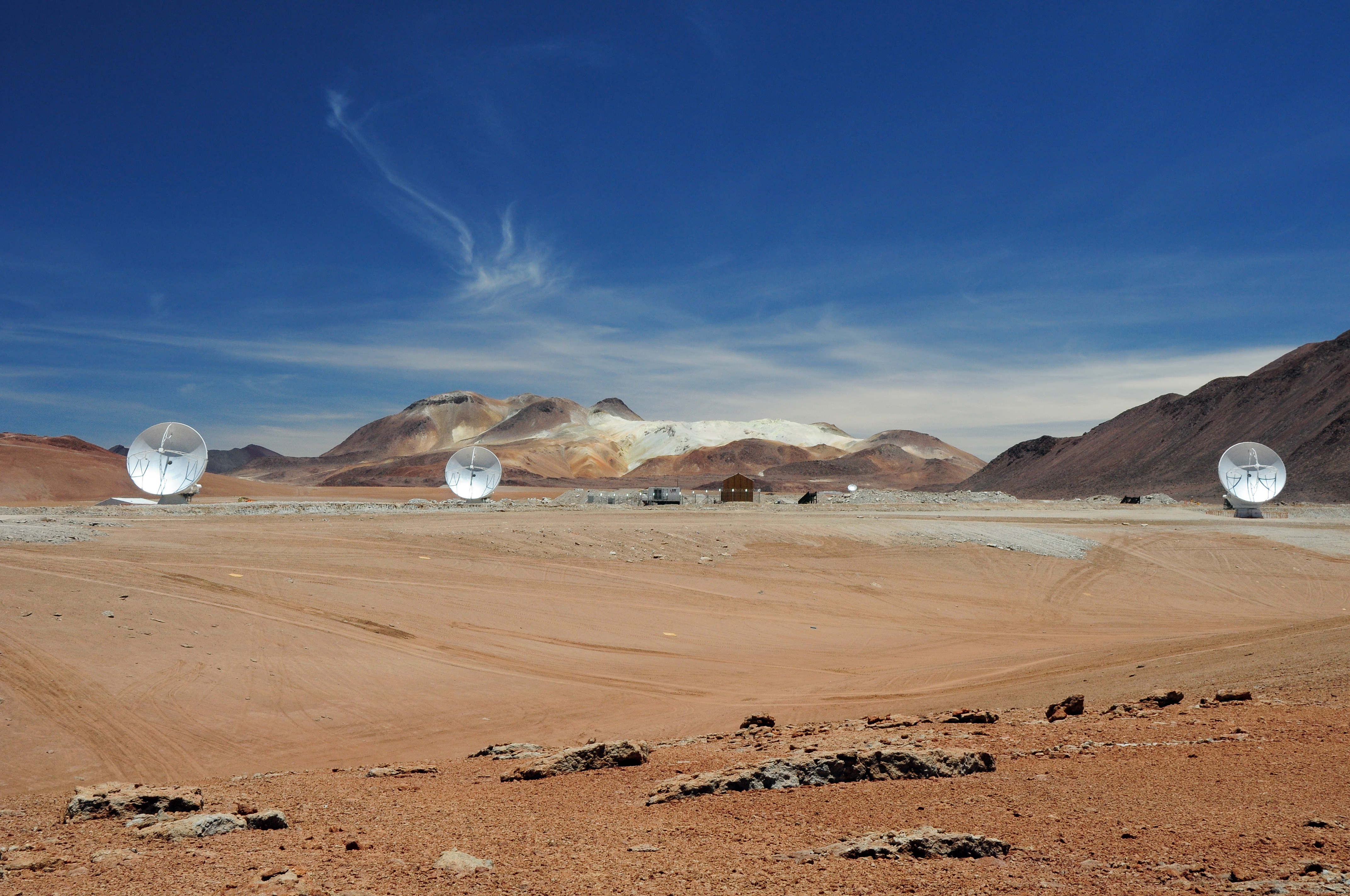 Three ALMA antennas linked together as an interferometer for the first time, on the 5000-metre altitude plateau of Chajnantor. Having three antennas observing in unison makes it possible to correct errors that arise when only two antennas are used, thus paving the way for precise images of the cool Universe at unprecedented resolution.